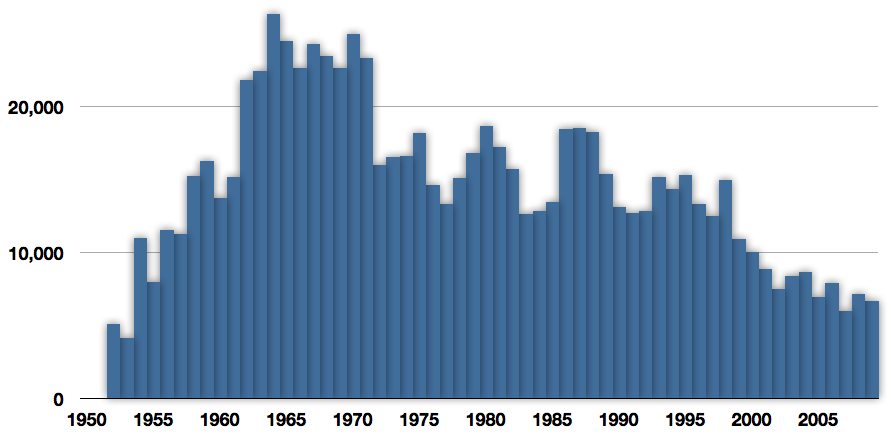 Fisheries recorded capture of striped marlin (Tetrapturus audax) from 1952 to 2009. Data source FAO fisheries